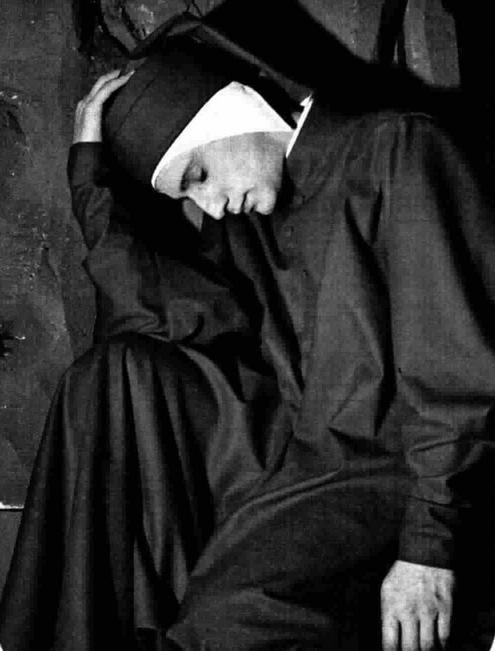 Italian actor Roberto Herlitzka playing Dante Alighieri on stage